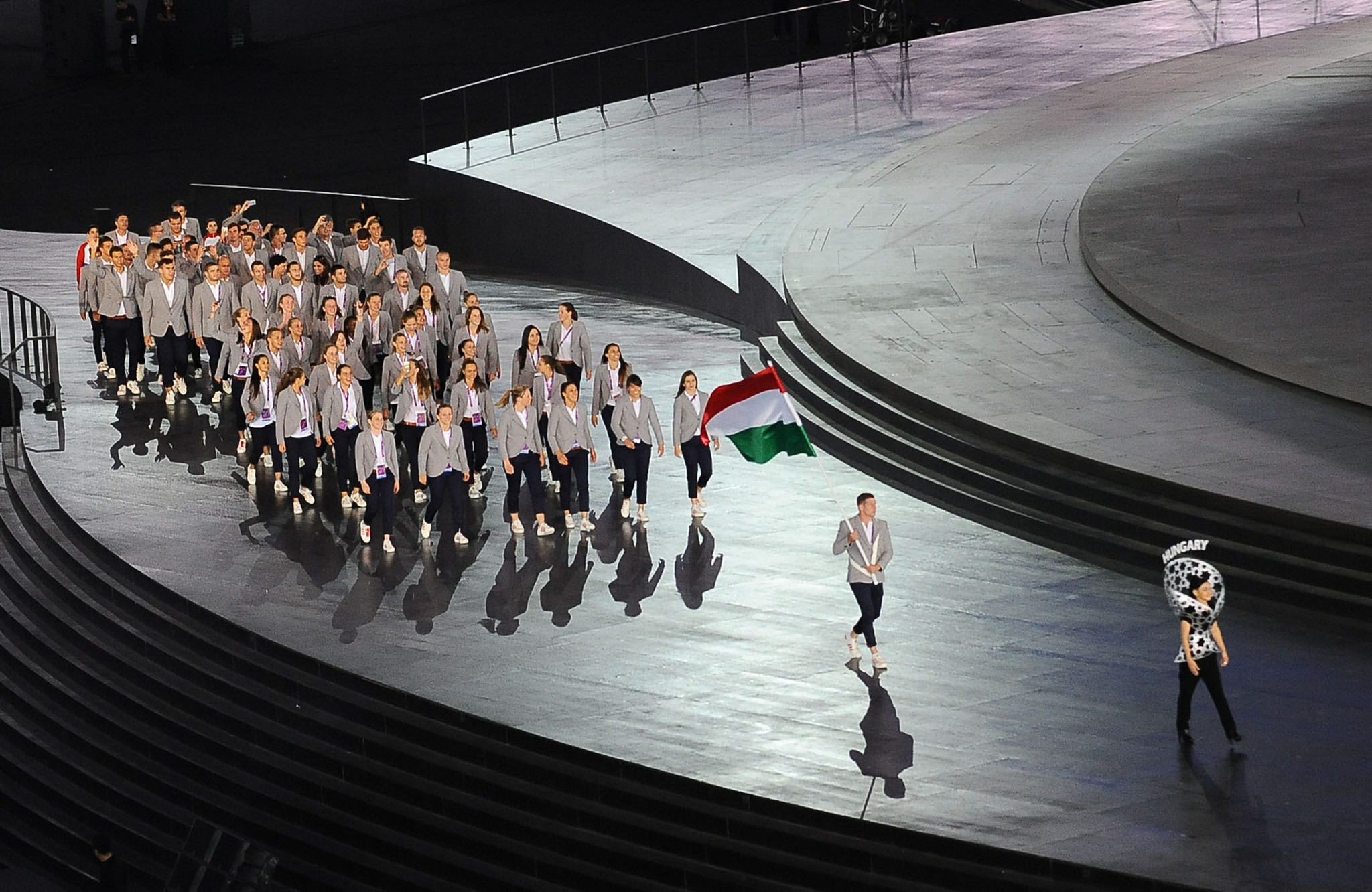 The opening ceremony of the First European games